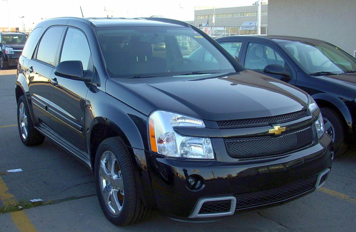 2008 Chevrolet Equinox Sport photographed in Montreal, Quebec, Canada.